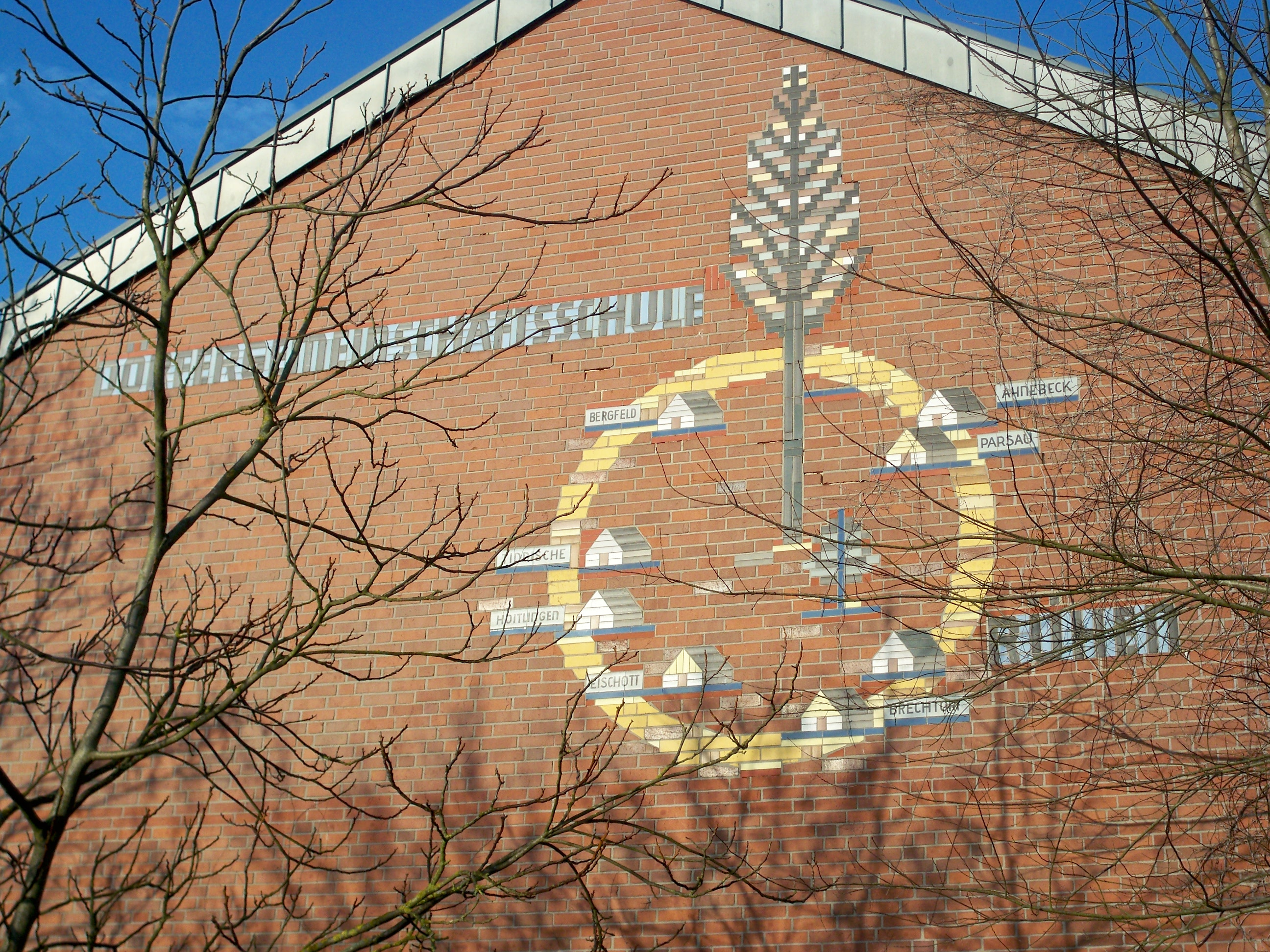 Rühen, Lower Saxony, wall picture at the school, depicting with one exception (Croya) the villages of the former Samtgemeinde Rühen